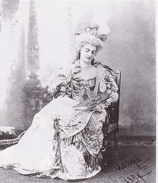 Portrait of Archduchess Margarethe Klementine of Austria (1870-1955)